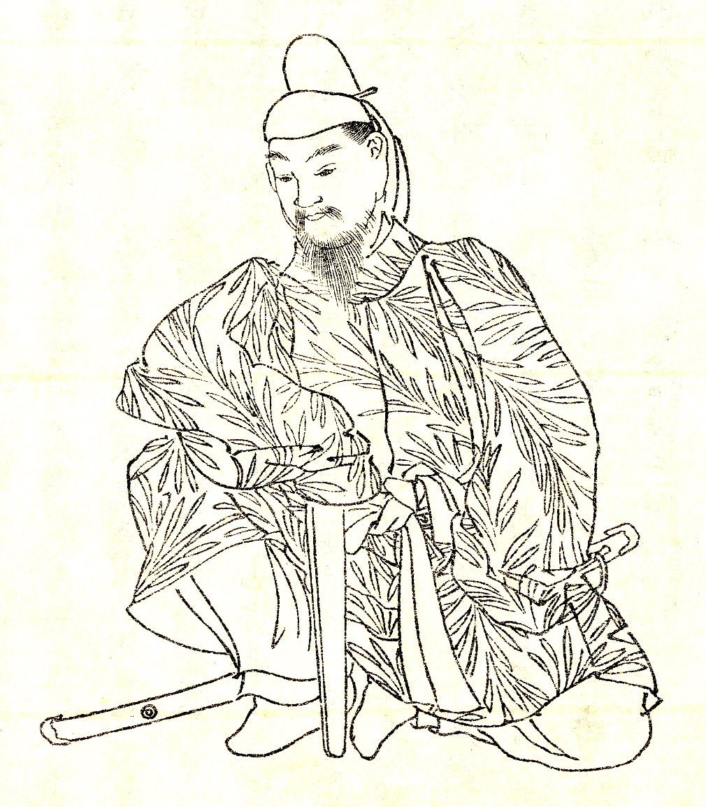 Sakanoue no Karitamaro(坂上苅田麻呂) was a Japanese officer and court noble in Nara period.